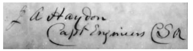 THis a photo of Haydon's signature on a pay voucher from his enlistment